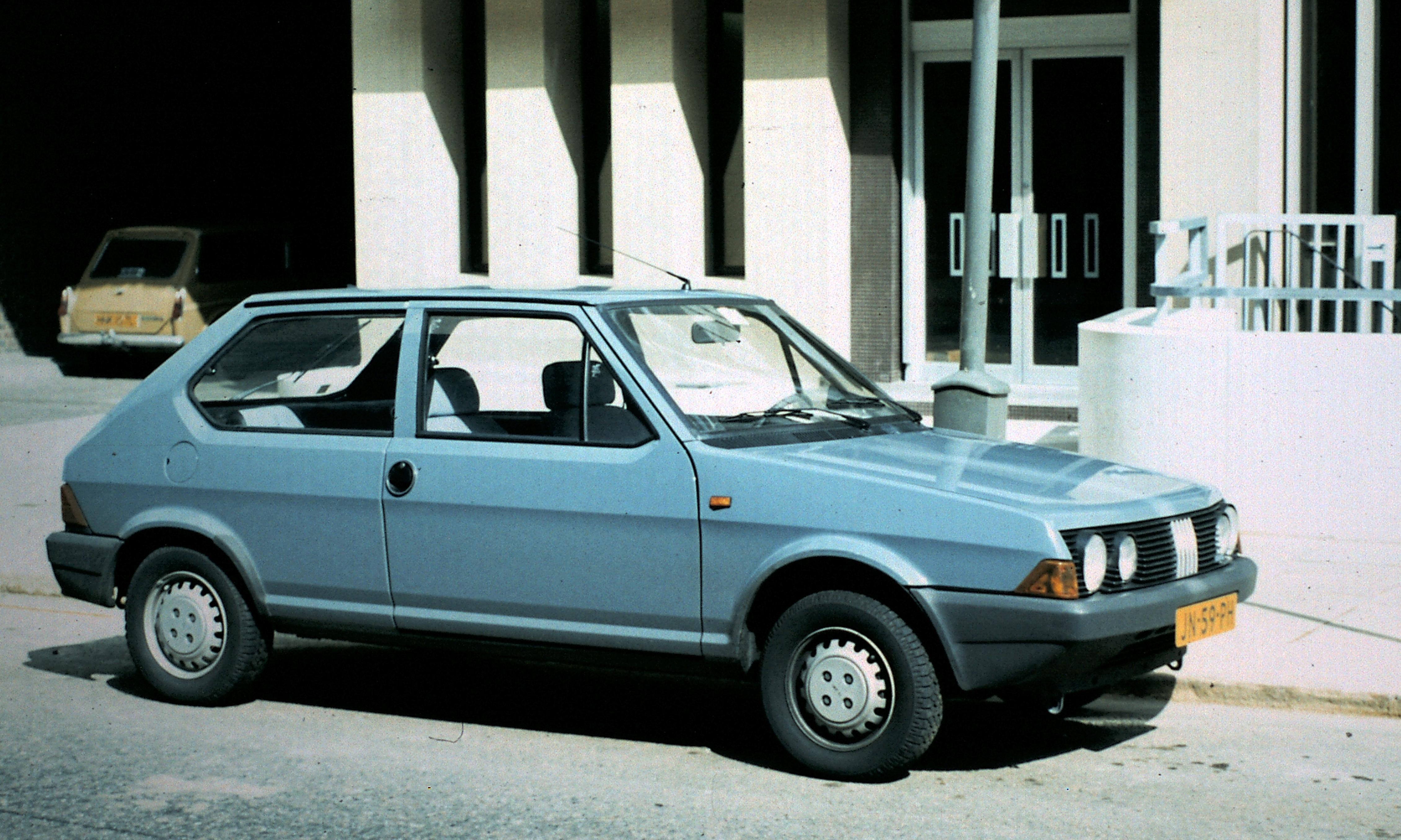 Fiat Ritmo 2 door post face lift with round door handles